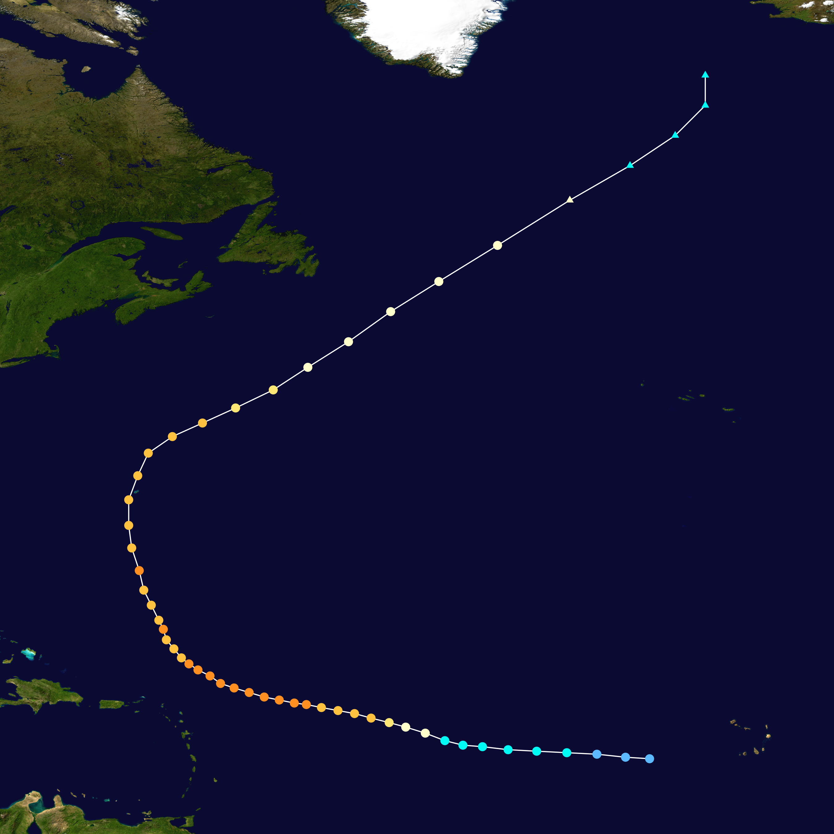 Track map of Hurricane Fabian of the 2003 Atlantic hurricane season. The points show the location of the storm at 6-hour intervals. The colour represents the storm's maximum sustained wind speeds as classified in the Saffir–Simpson scale (see below), and the shape of the data points represent the nature of the storm, according to the legend below. Saffir–Simpson scale Tropical depression≤38 mph≤62 km/h Category 3111–129 mph178–208 km/h Tropical storm39–73 mph63–118 km/h Category 4130–156 mph209–251 km/h Category 174–95 mph119–153 km/h Category 5≥157 mph≥252 km/h Category 296–110 mph154–177 km/h Unknown Storm type Tropical cyclone Subtropical cyclone Extratropical cyclone / Remnant low / Tropical disturbance / Monsoon depression